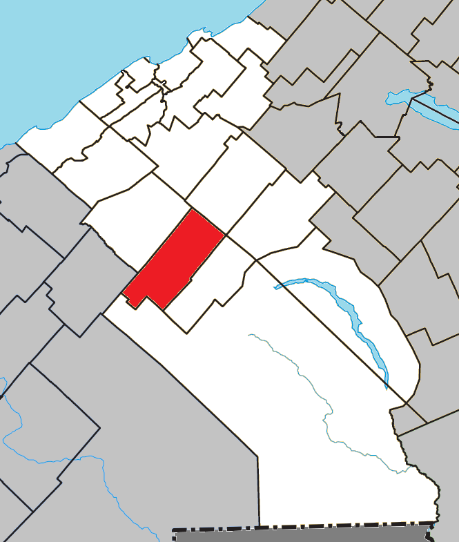 Location of Les Hauteurs, Quebec within La Mitis Regional County Municipality.